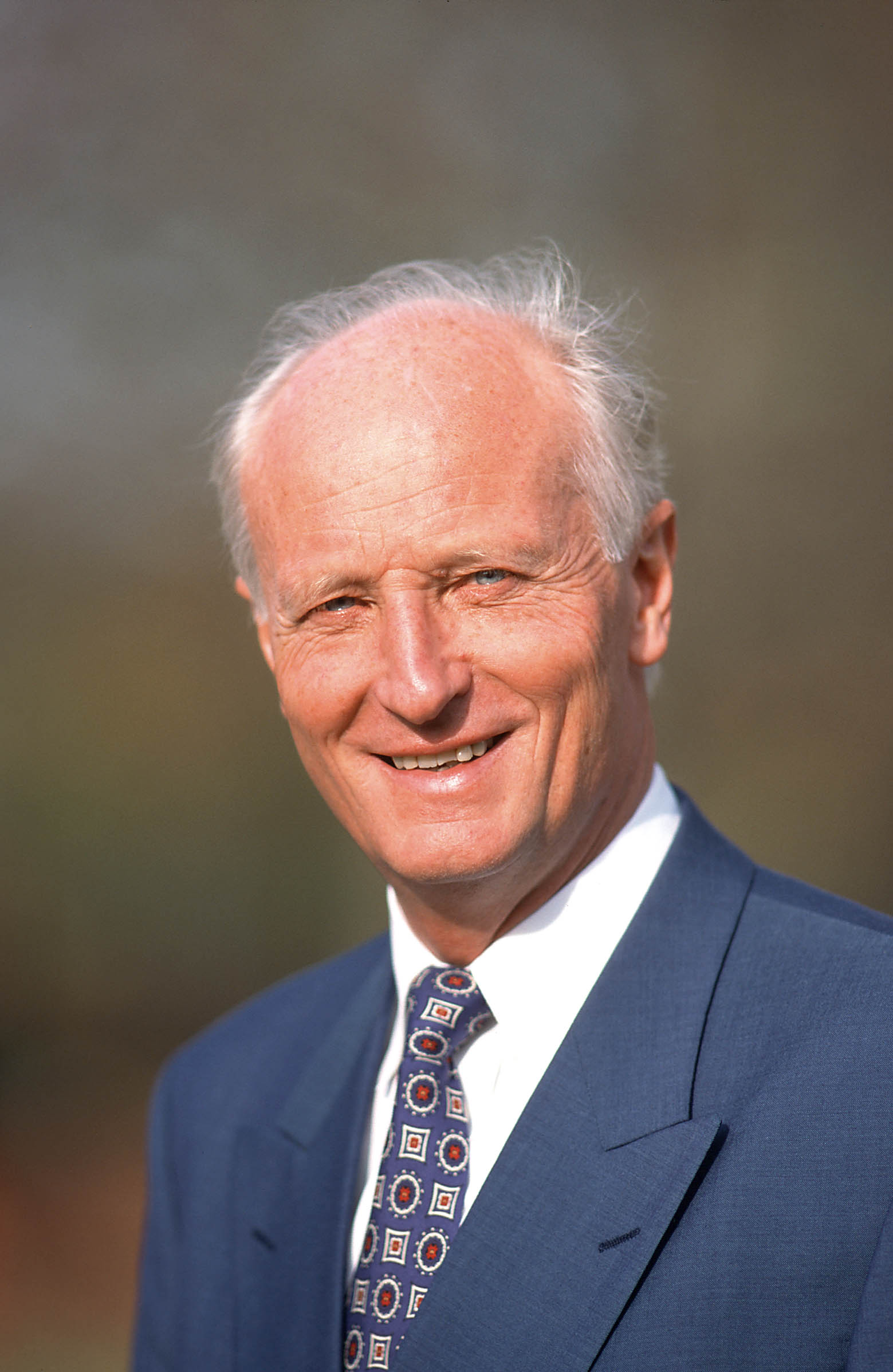 Juergen_Dieckert